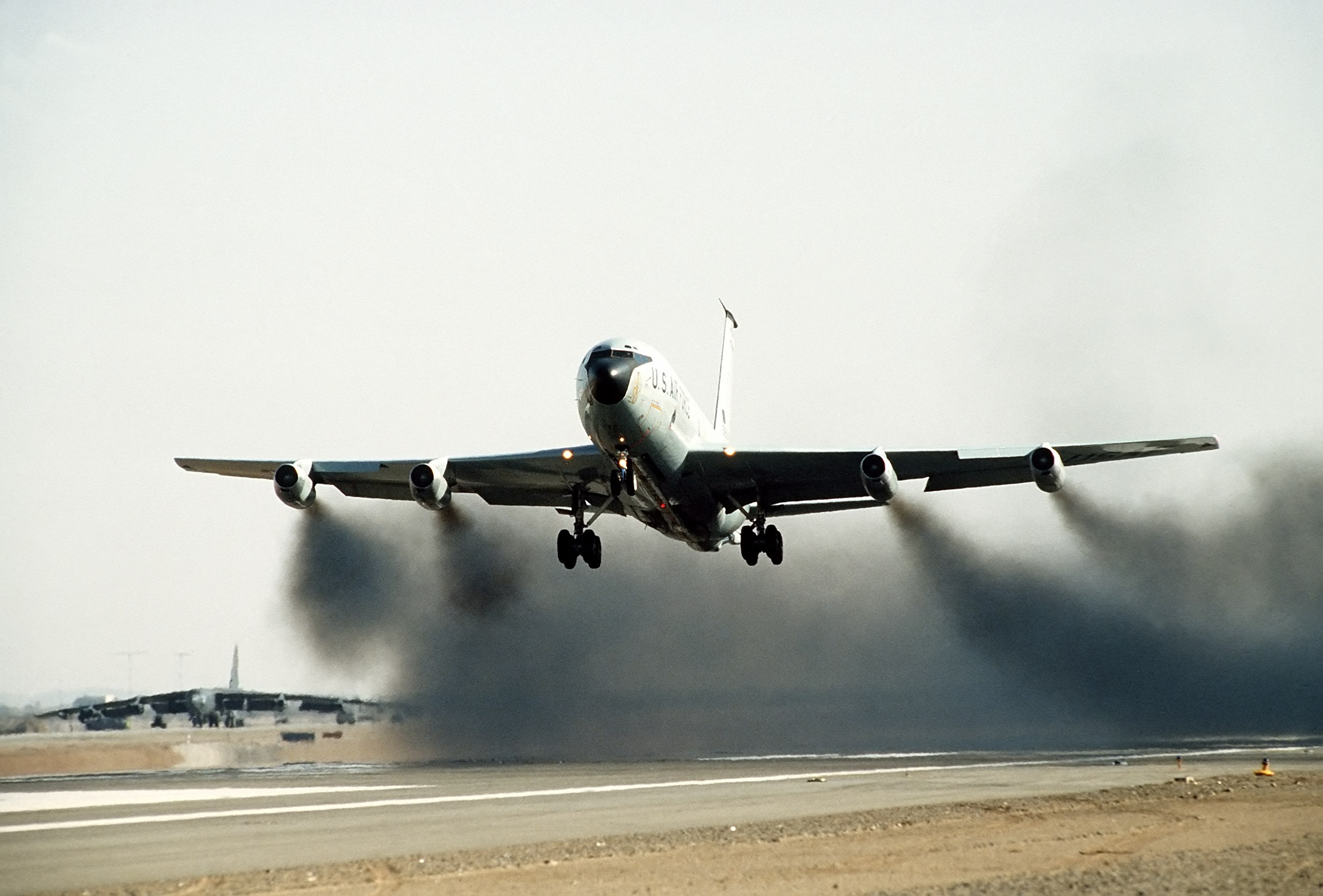 A U.S. Air Force Boeing KC-135A Stratotanker aircraft taking off. Original caption: "A U.S. Air Force KC-135E Stratotanker aircraft takes off on a mission in support of Operation Desert Storm." Which is obviously wrong. It´s a KC-135 steam jet with J57-engines and water injection, therefore it could be a KC-135A or -Q.